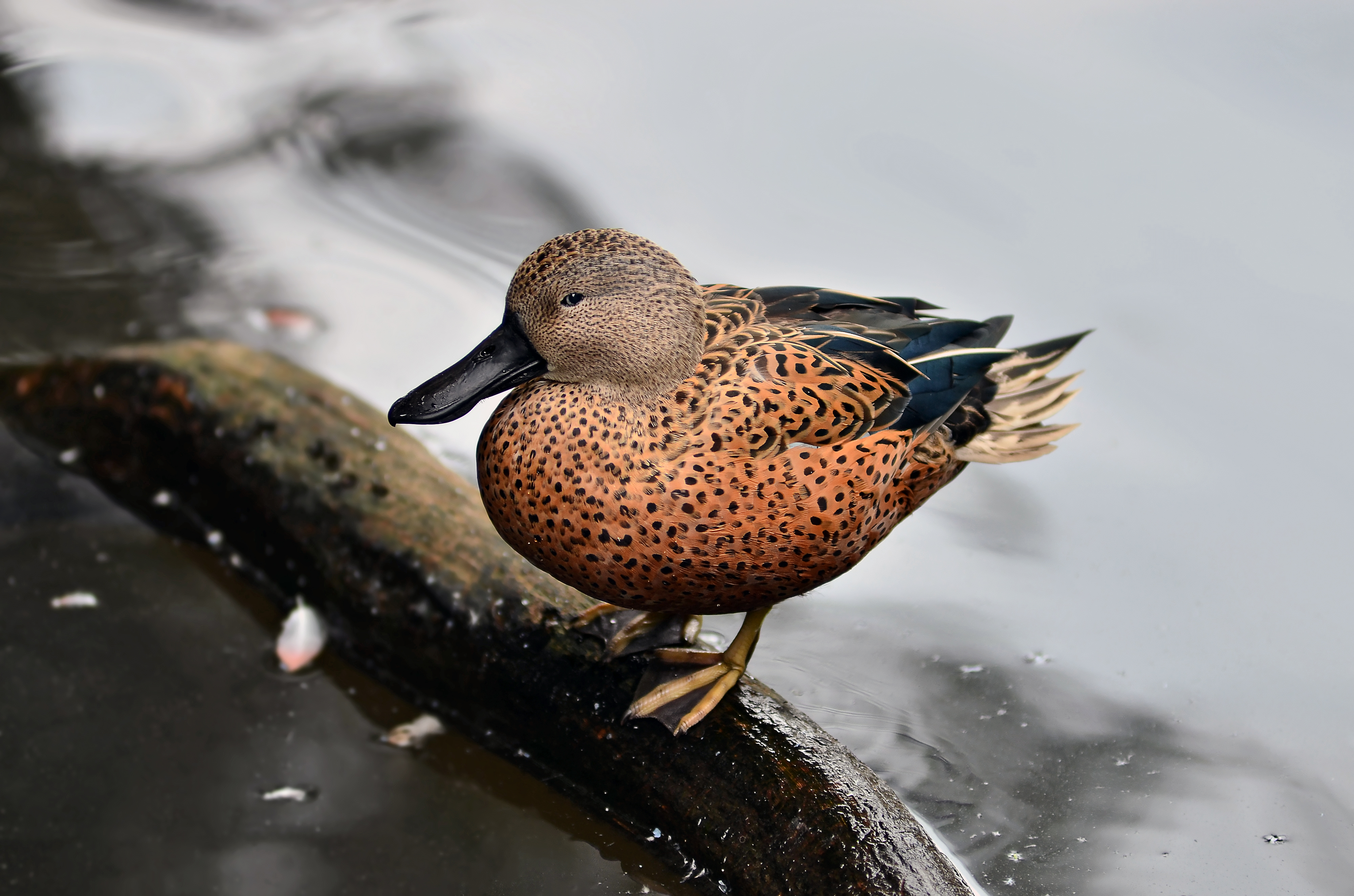 Red Shoveler (Anas platalea) at Weltvogelpark Walsrode (Walsrode Bird Park, Germany)